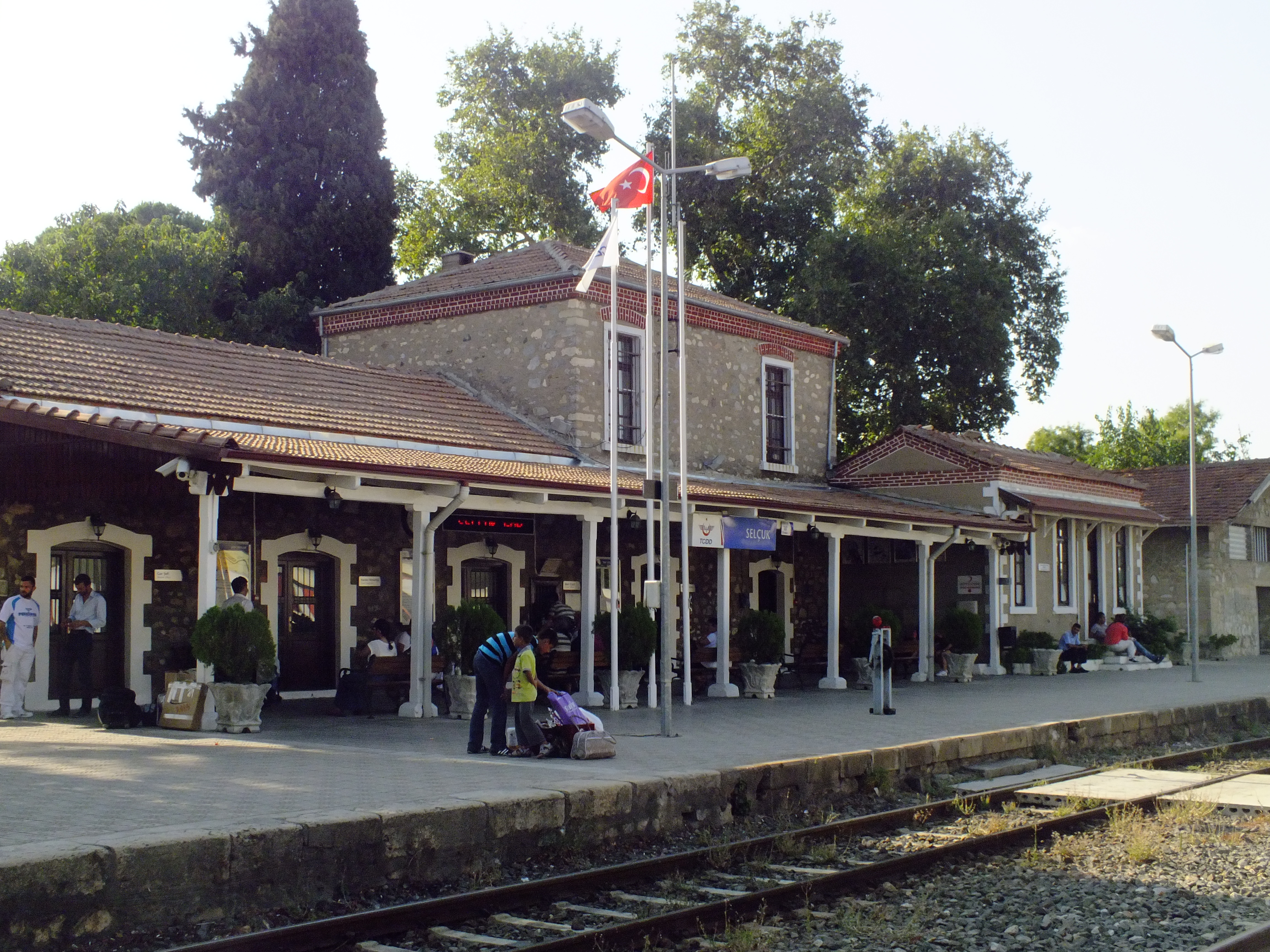 Selcuk railway station building.